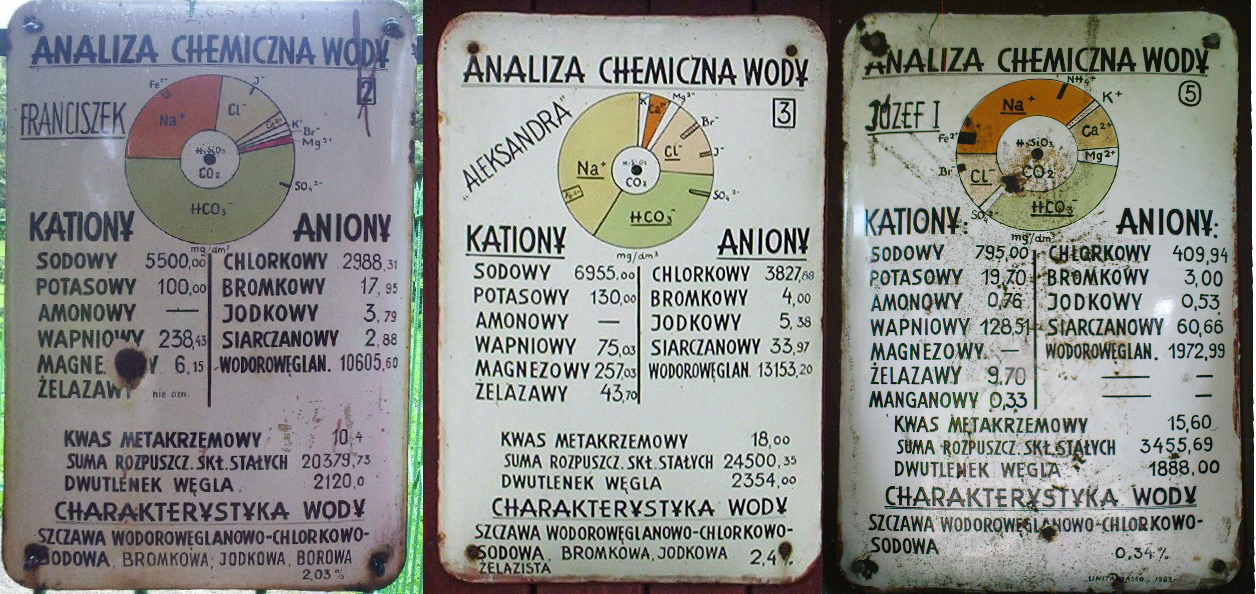 Information plates on mineral water wells Franciszek Aleksandra and Józef 1 in Wysowa (Poland).